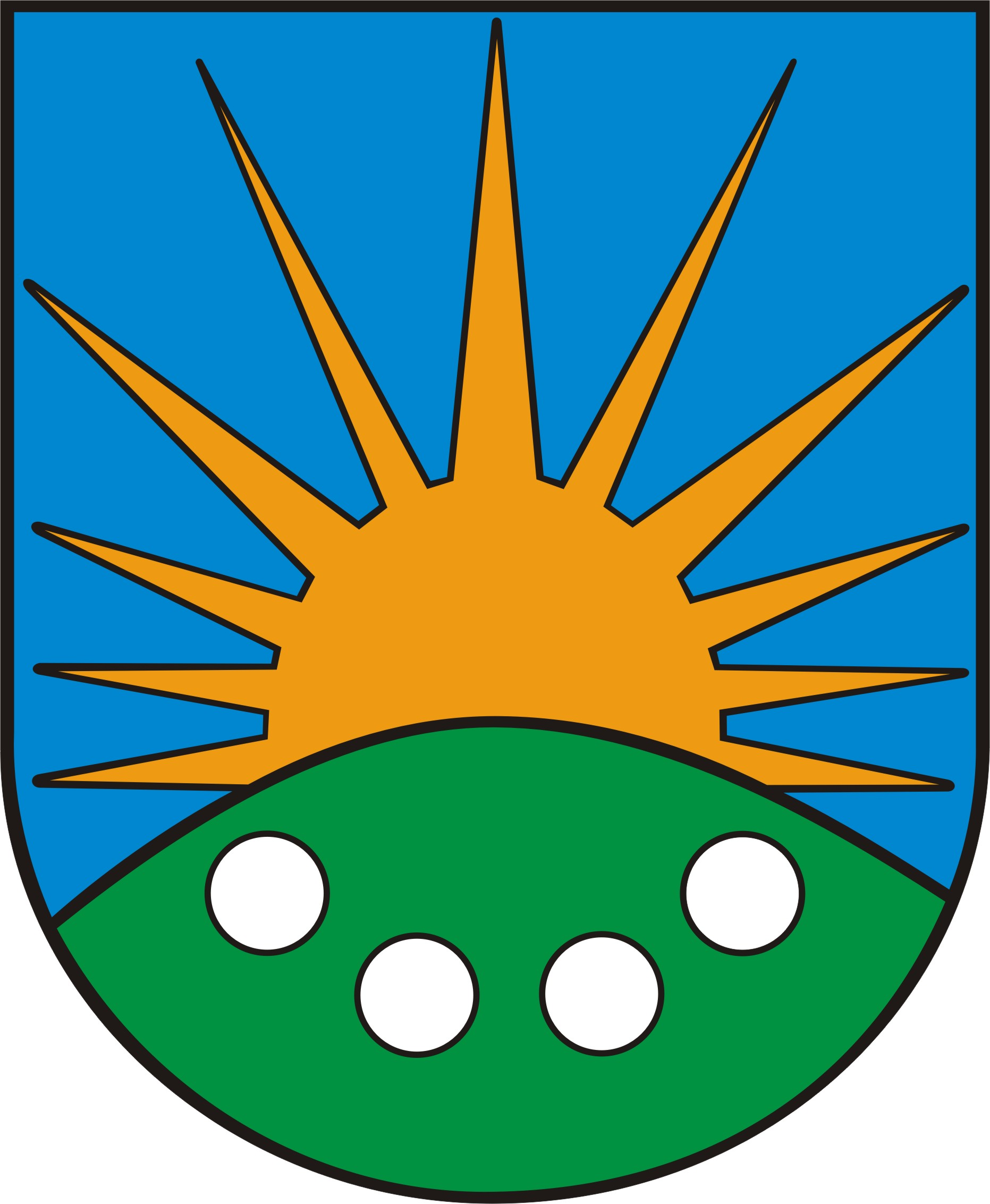 coat of arms